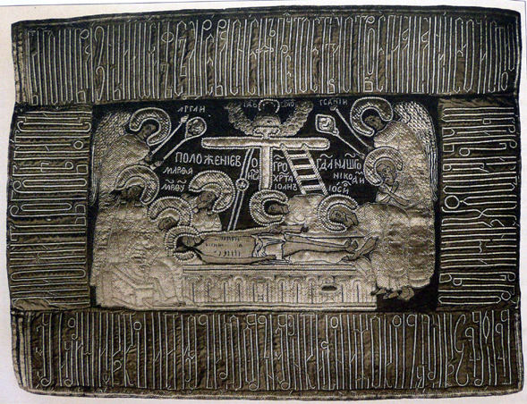 An epitaphios from Fyodorovskaya Church, Yaroslavl (ca. 1697)